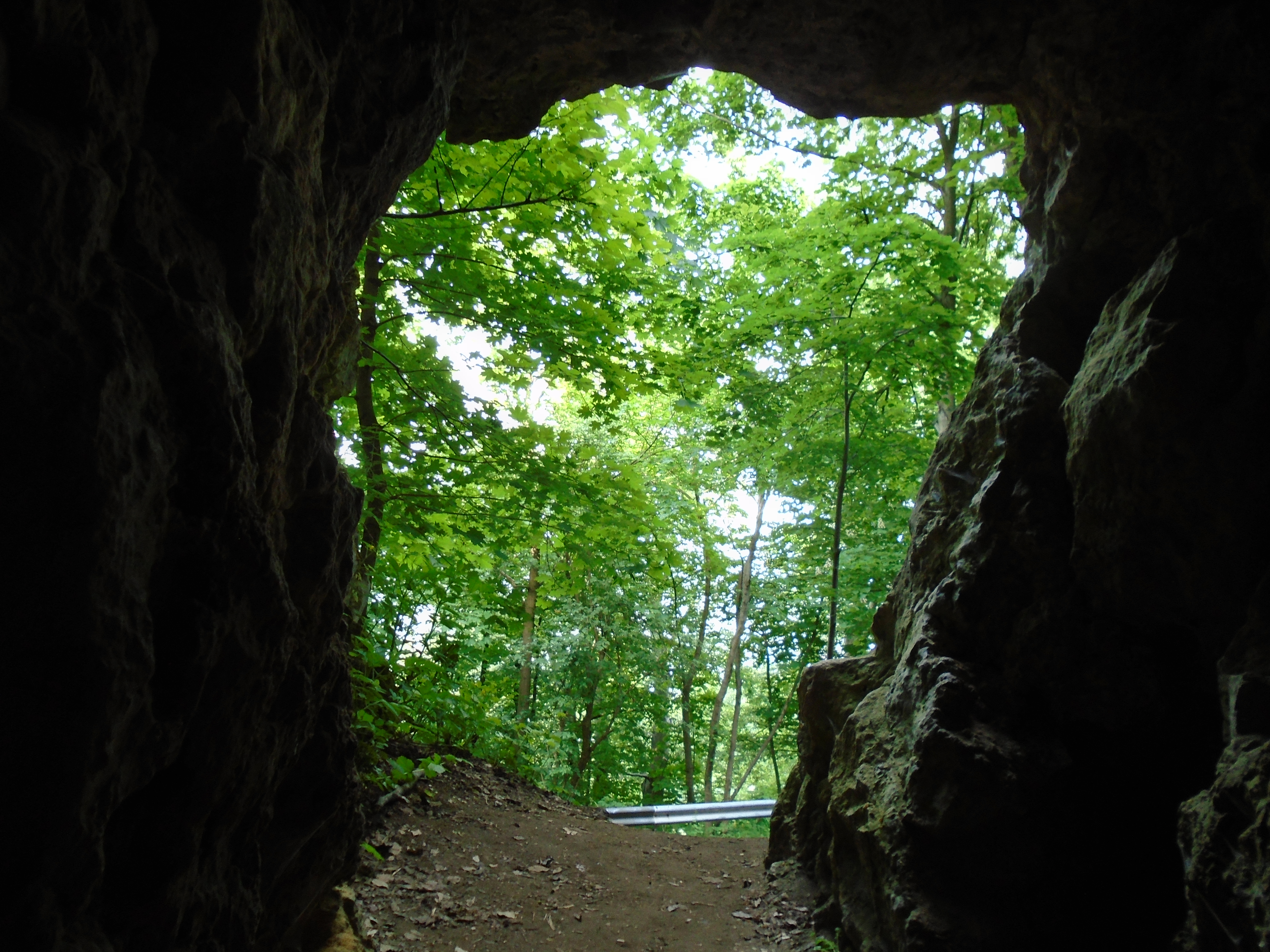 Exit of János-hegyi Cave.